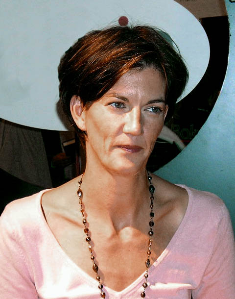 The photos was taken at Gothenburg Book Fair 2005 by Lennart Guldbrandsson